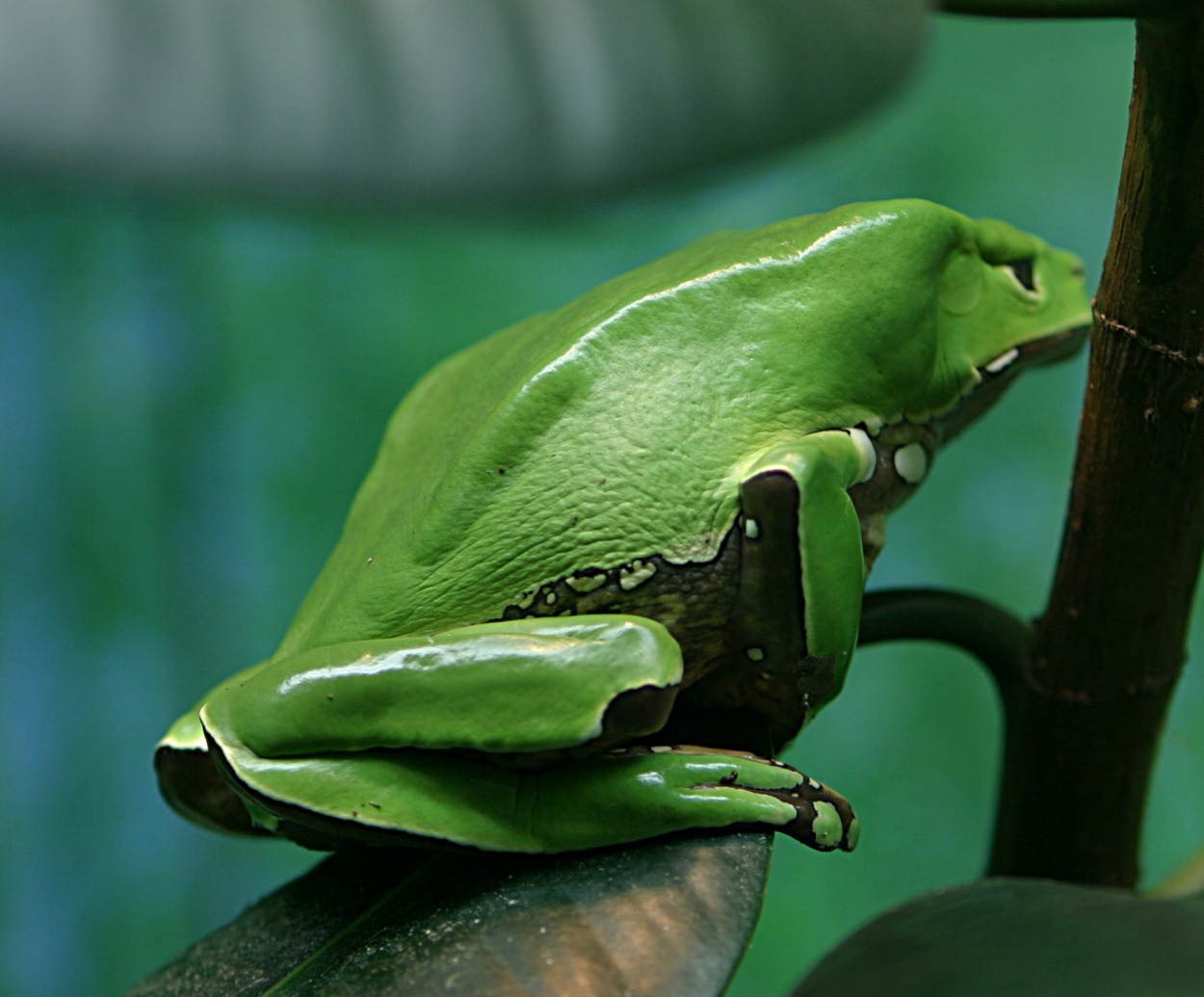 Phyllomedusa bicolor Giant Waxy Monkey Frog/giant leaf frog at the Houston Zoo